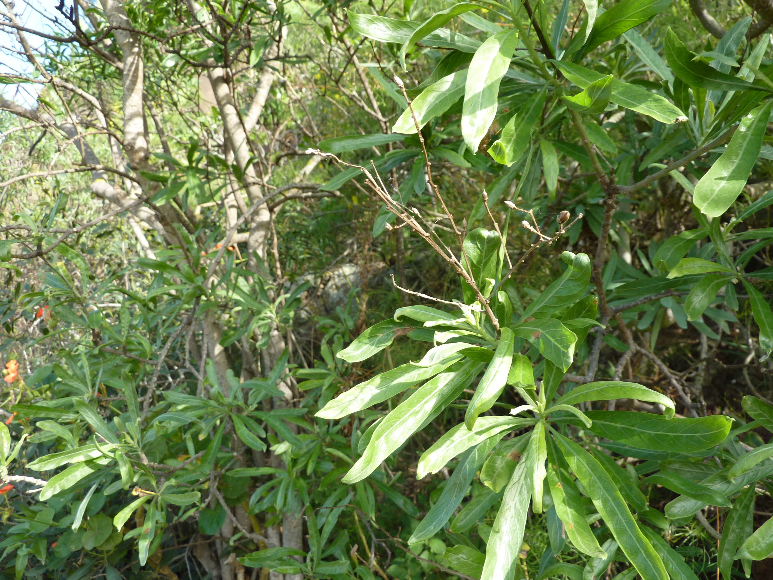 Convolvulus floridus growing in the Jardín Botánico Canario Viera y Clavijo.